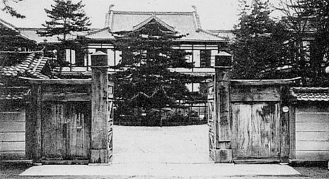 Nara Prefectural Office circa 1930